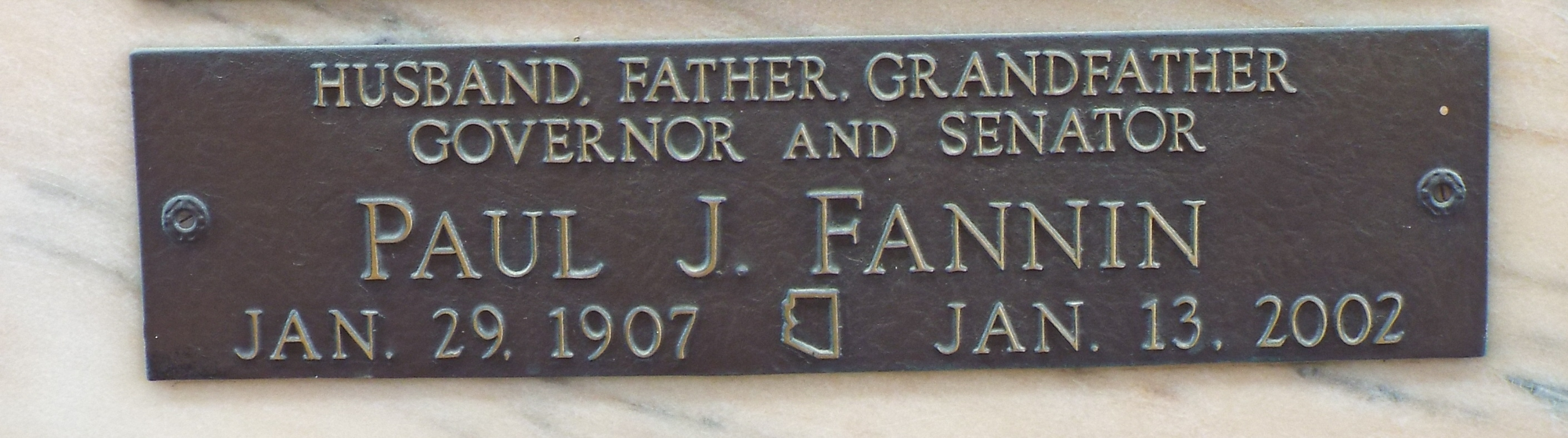 Crypt of Paul Jones Fannin (January 29, 1907-January 13, 2002. Fannin served as U.S. Senator (1965-1977) and as the 11th Governor of Arizona from 1959-1965.